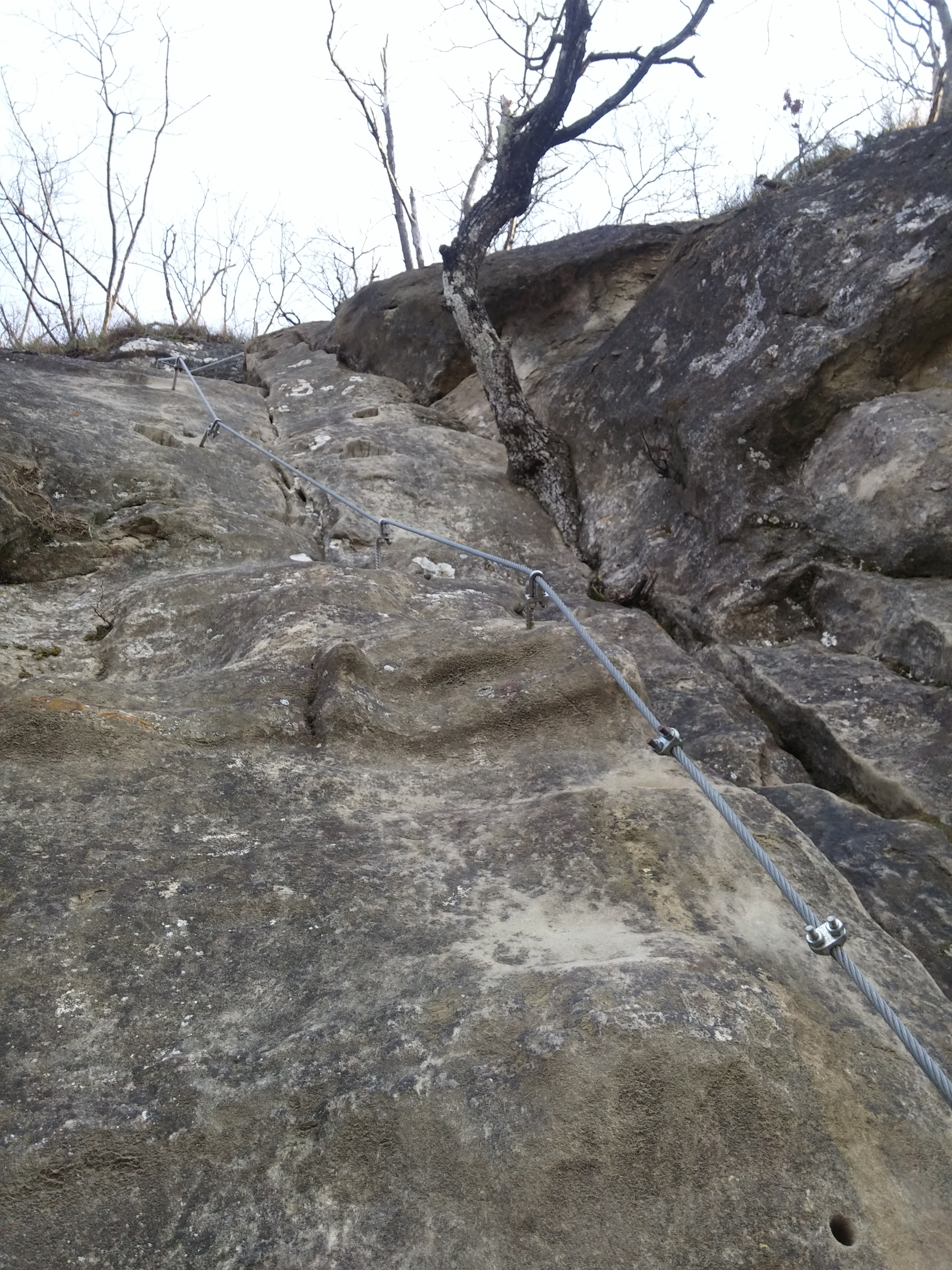 ultimo passaggio